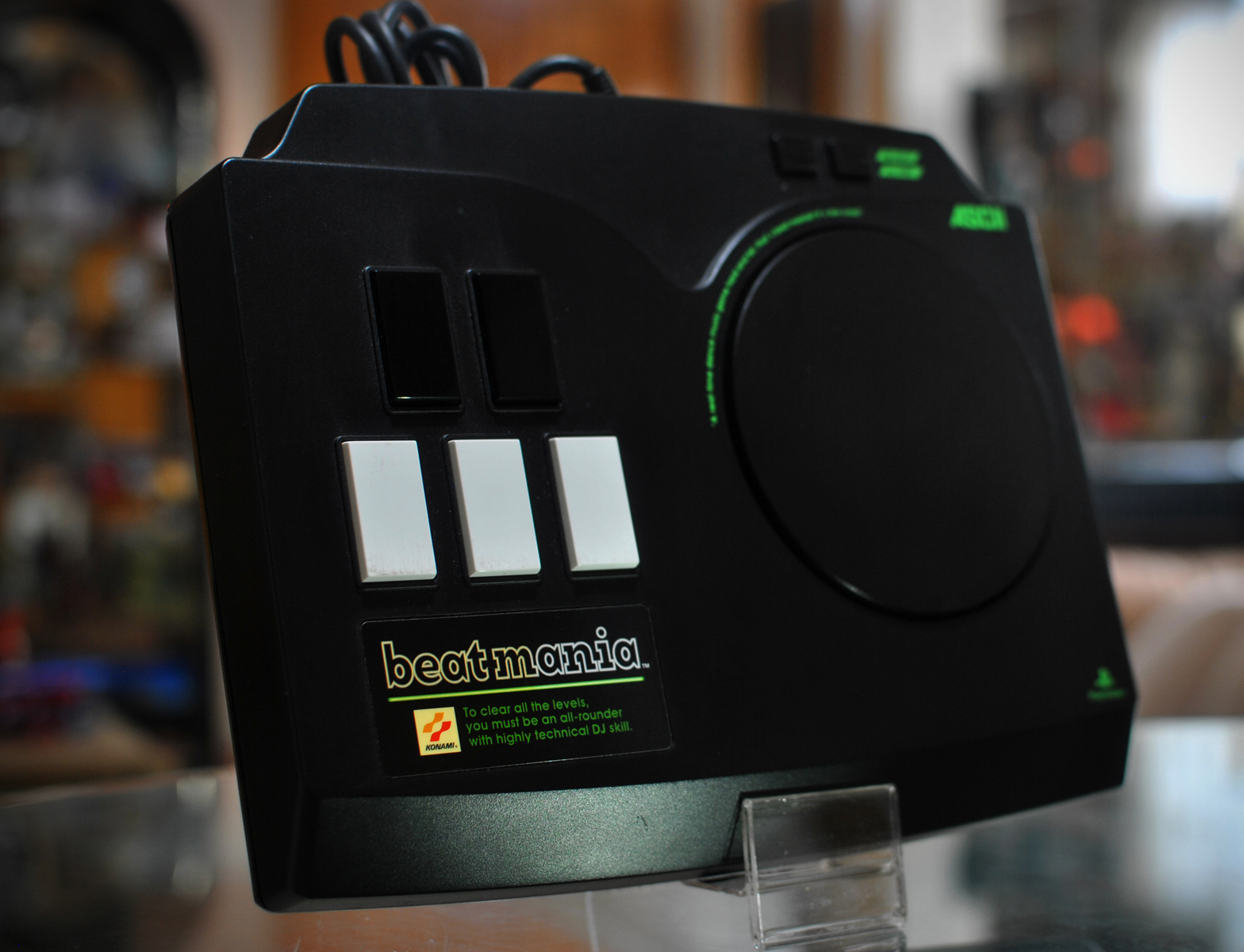 The official beatmania controller for PlayStation.